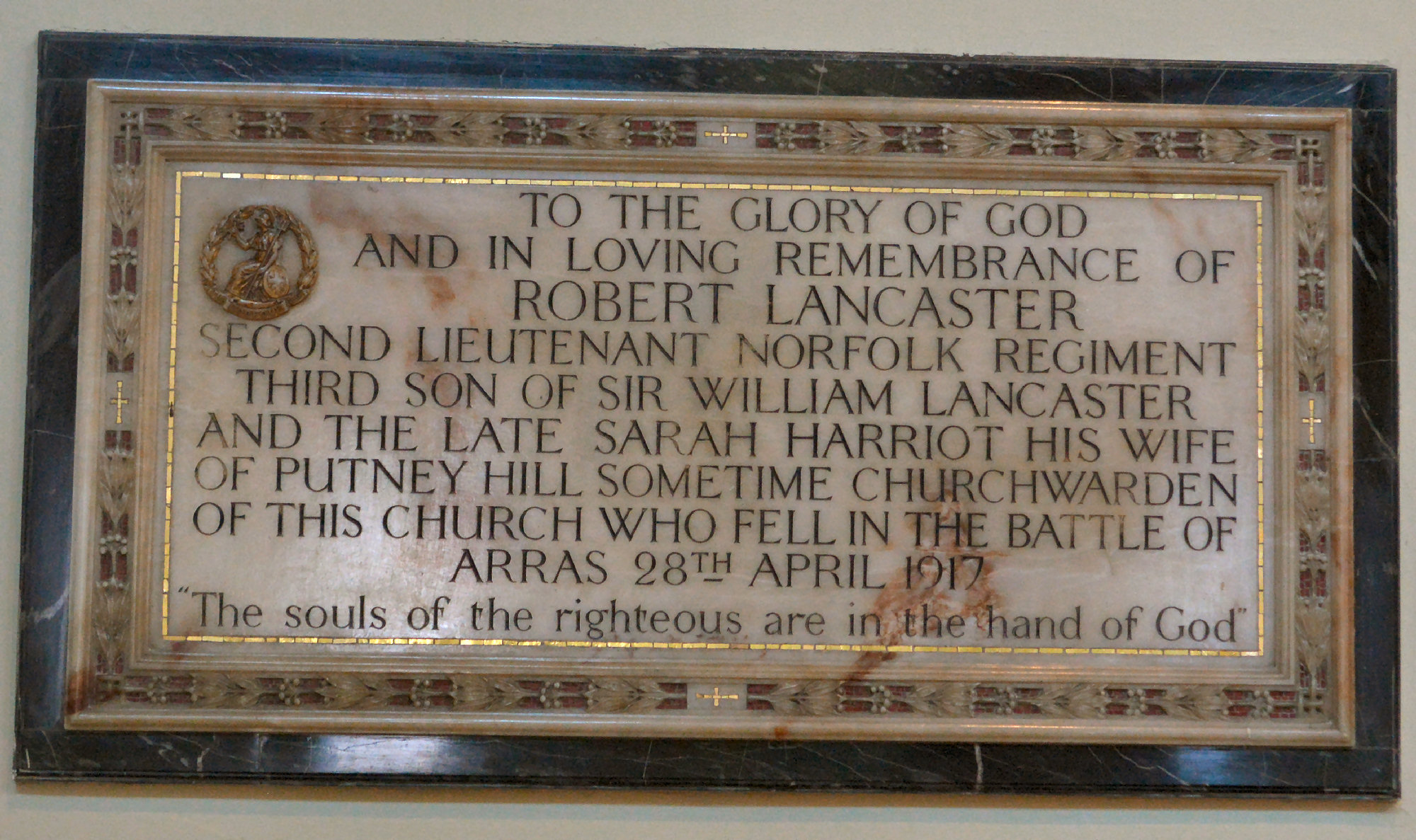 Notting Hill, St John's Church, Robert Lancaster memorial. Son of Sir William Lancaster (1841–1929), an English businessman, philanthropist and politician, the second Mayor of Wandsworth (1901–02) and the co-founder of Putney School of Art and Design.